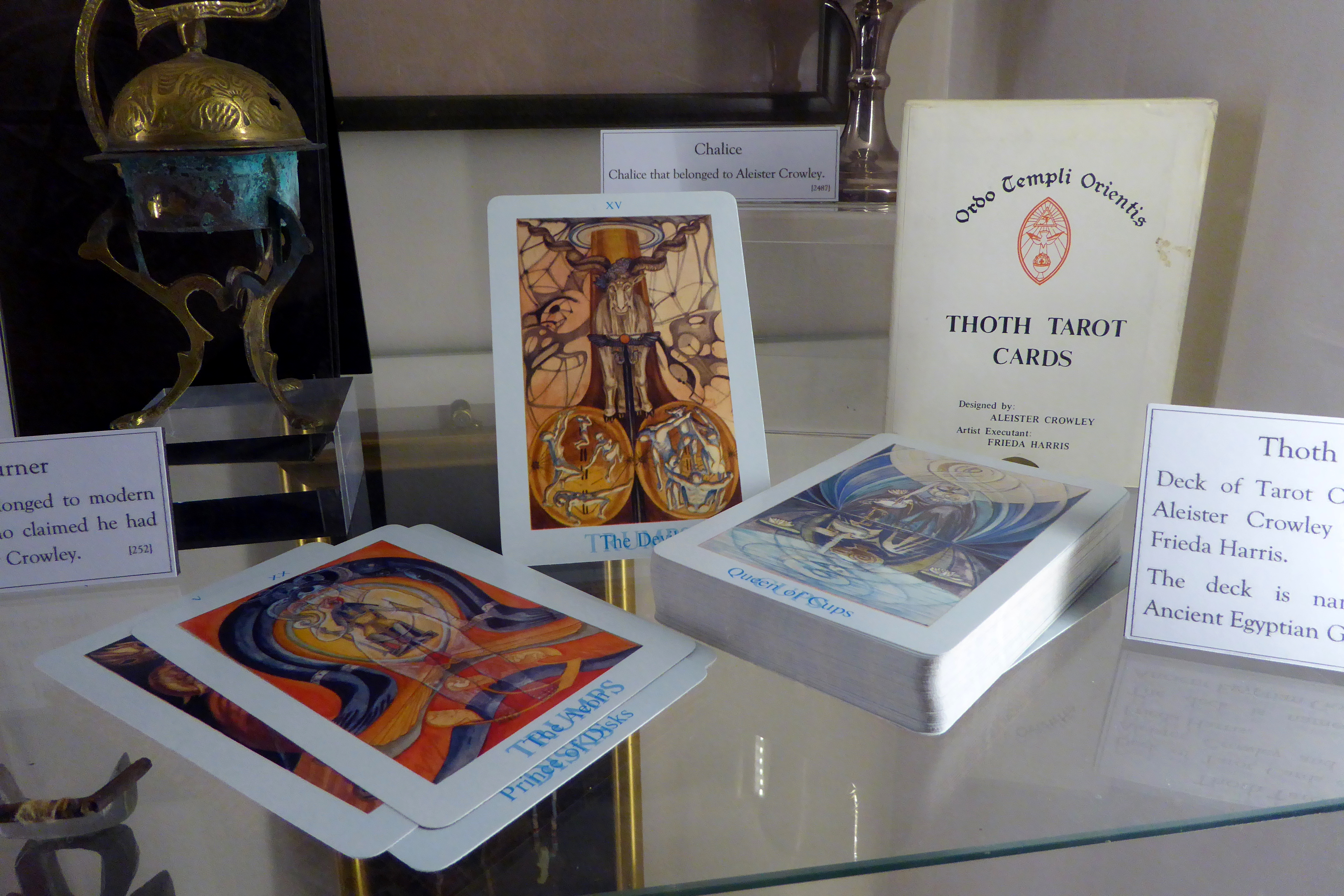 Display of the Thoth tarot card deck in the Museum of Witchcraft and Magic, Boscastle, Cornwall.